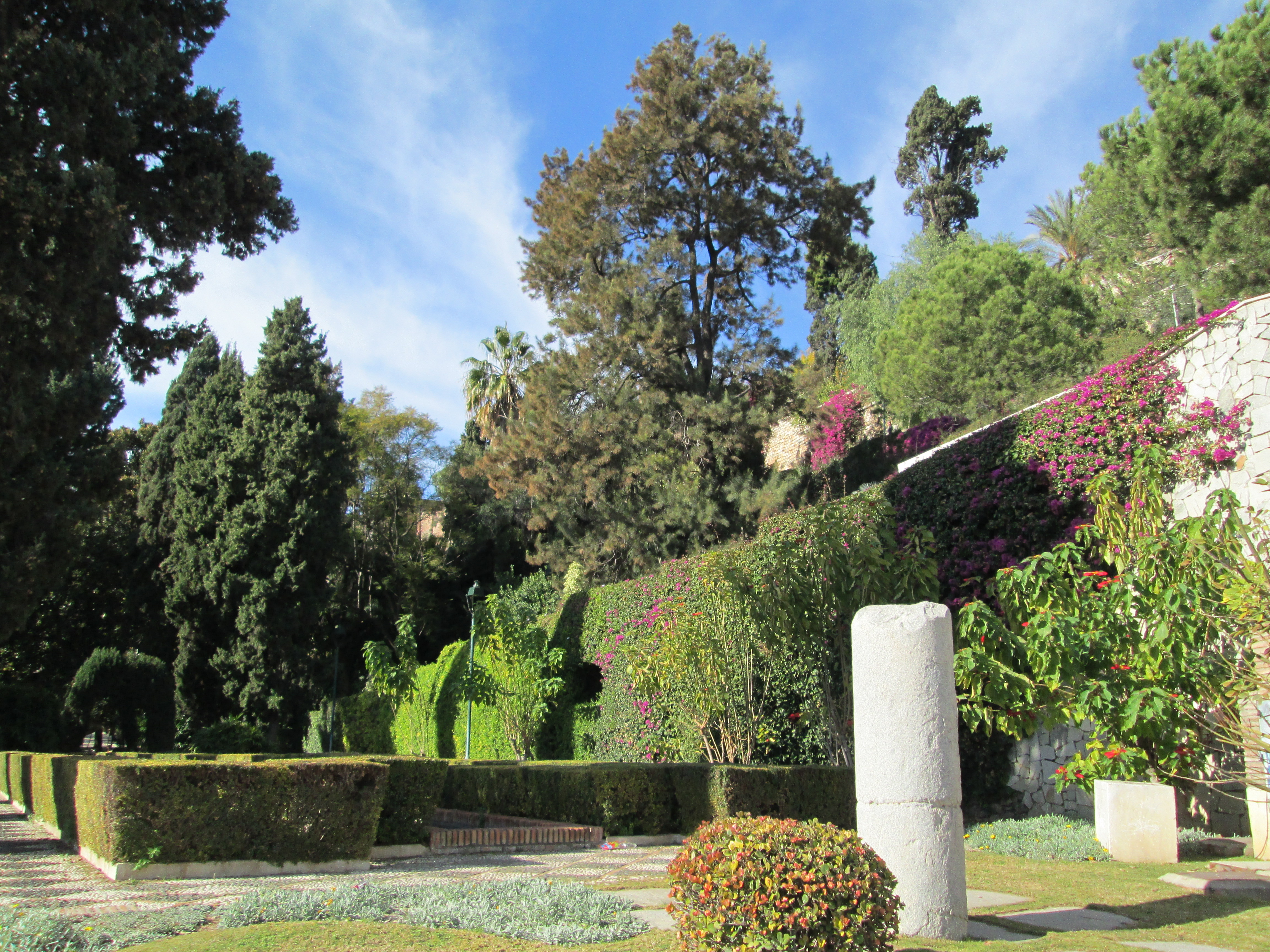 Jardines de Puerta Oscura